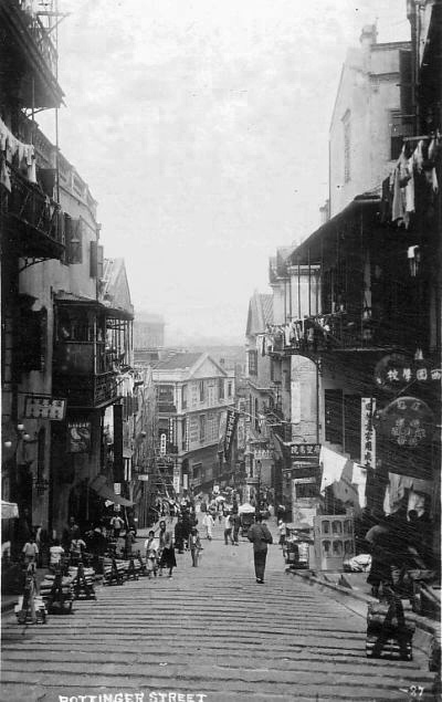 Pottinger Street in early 20th Century